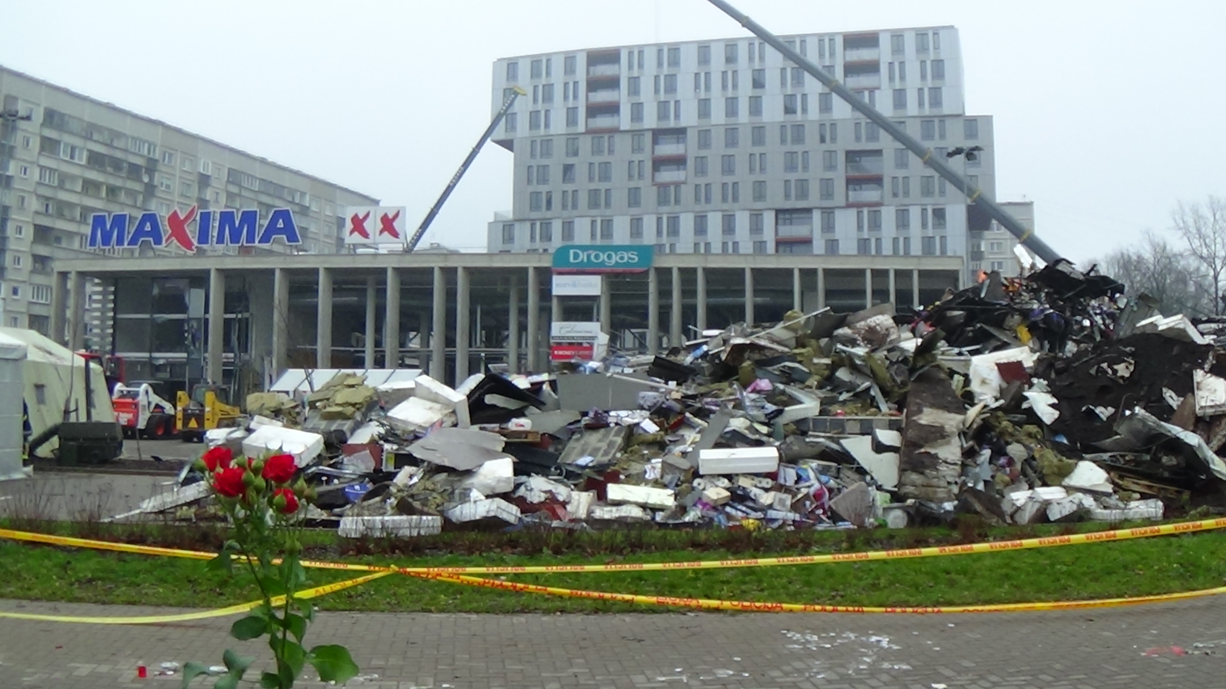 Rescue efforts 2 days after the supermarket roof collapsed